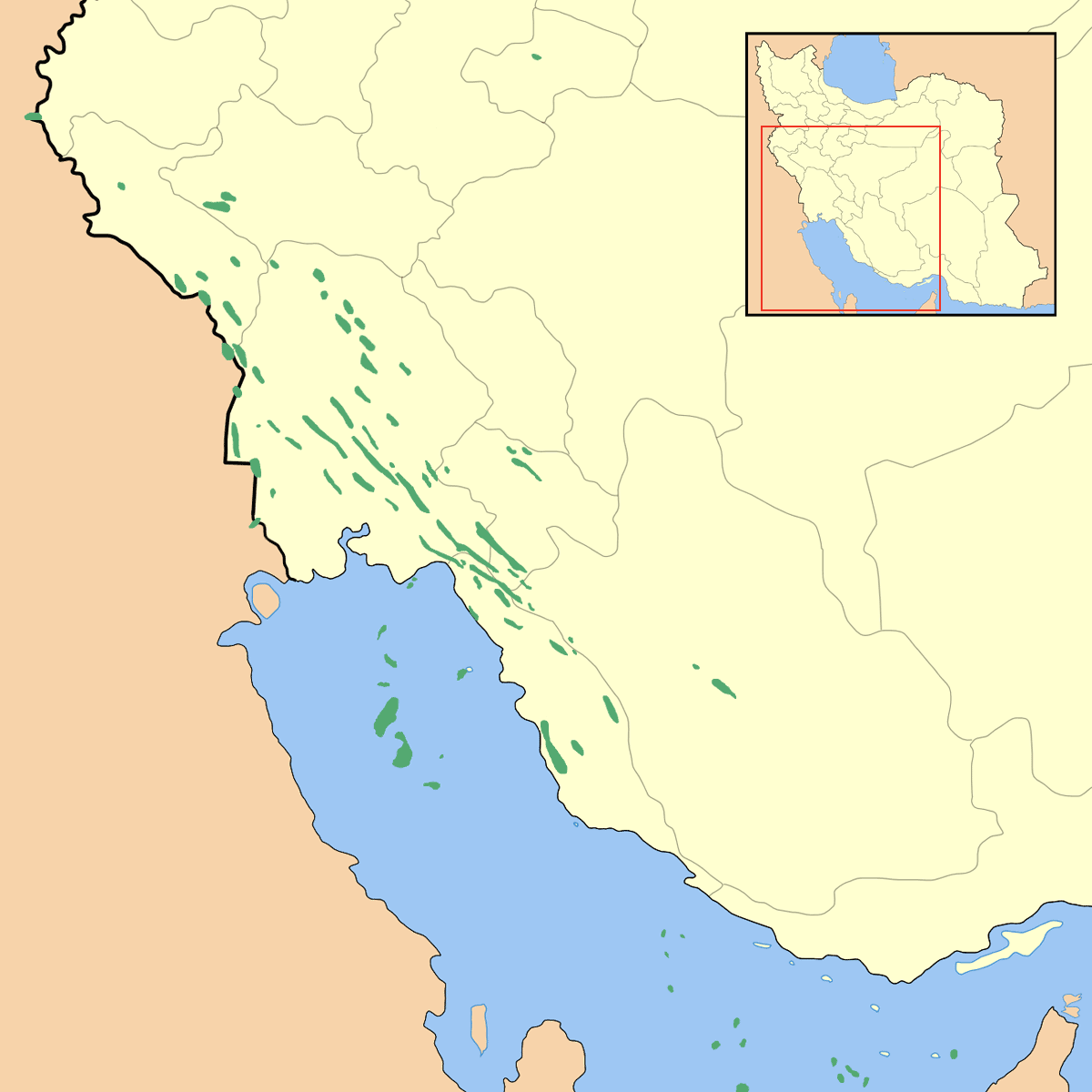 Map of the Iranian oil fields